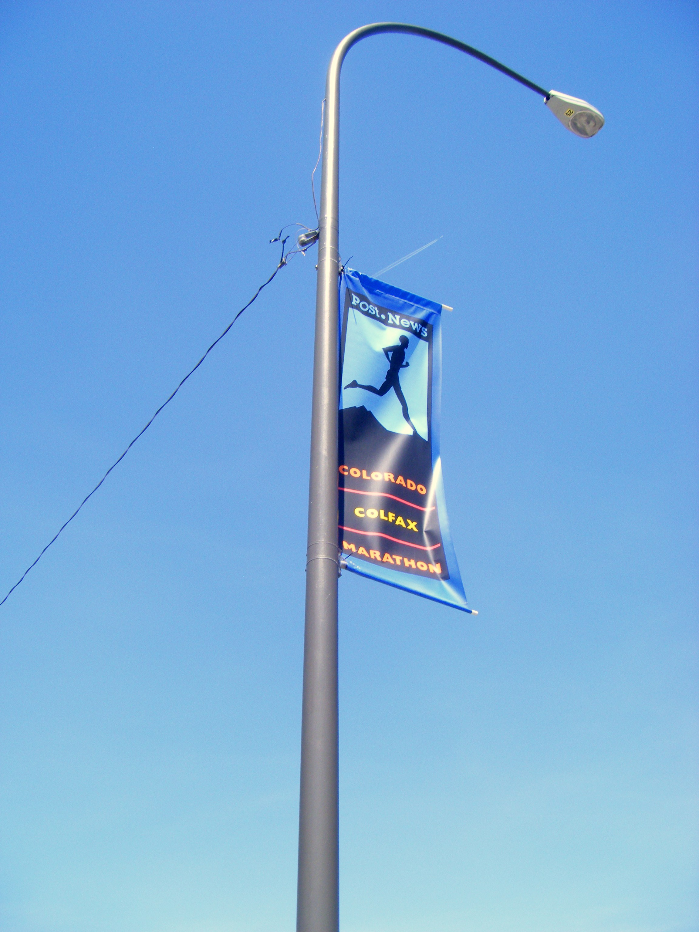 90 degree bended light pole and Colorado Colfax Marathon banner, Lakewood, Colorado, USA